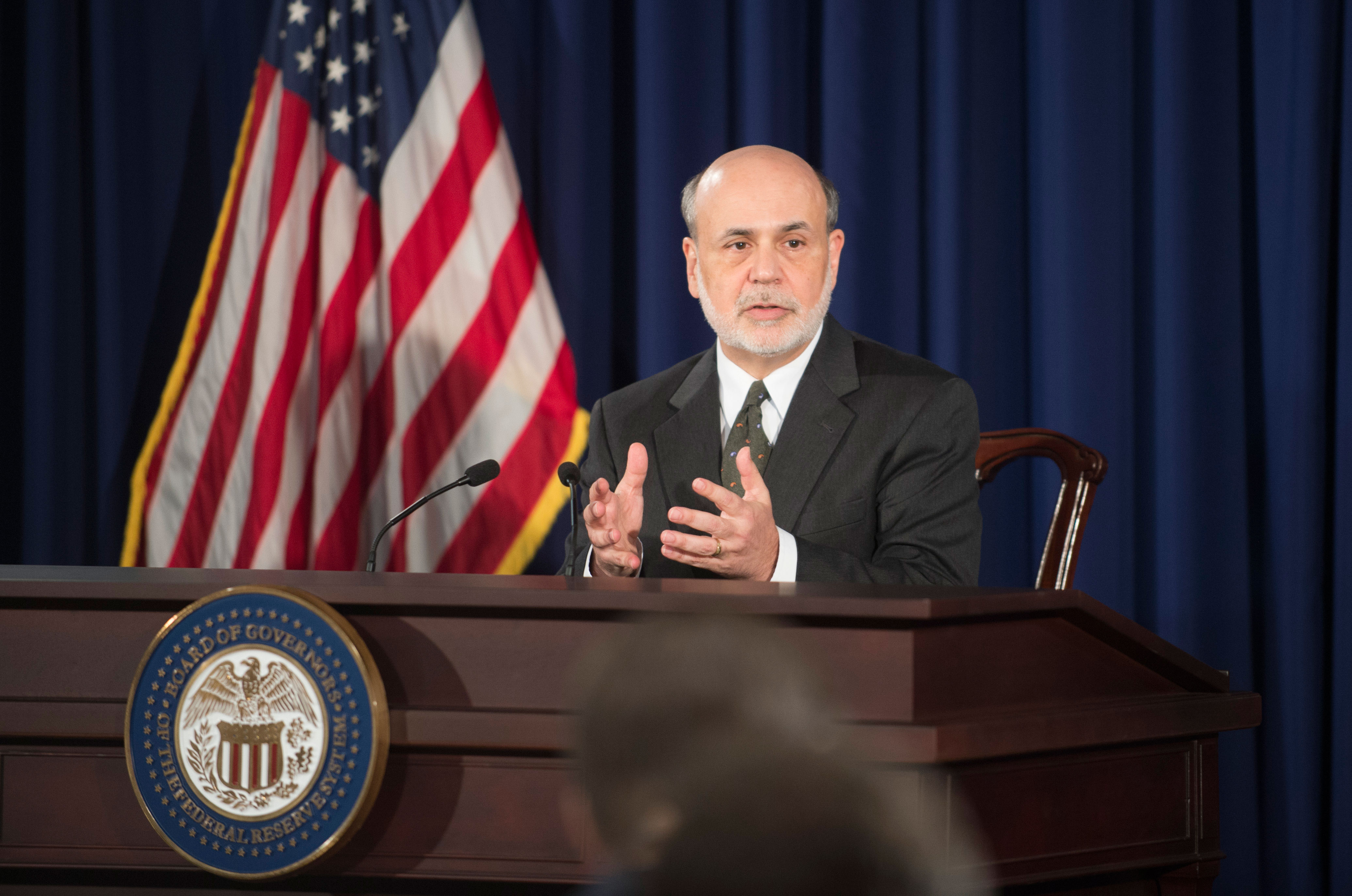 Chairman Ben S. Bernanke during the question-and-answer portion of the press conference on June 19, 2013. The event followed the June 18-19 meeting of the Federal Open Market Committee. FOMC meetings, calendars, statements, and minutes are available here